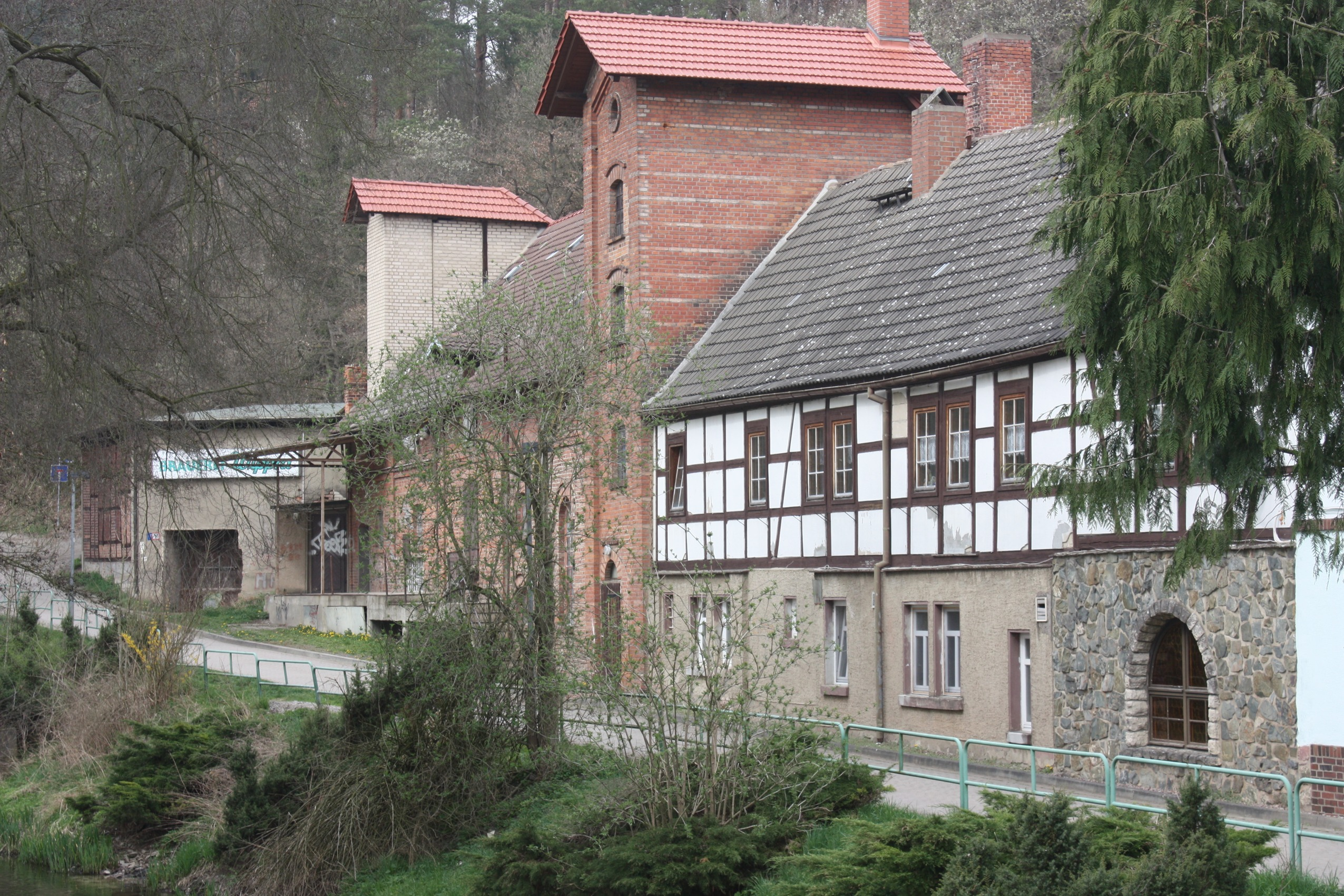 Wippra (Sangerhausen), the brewery